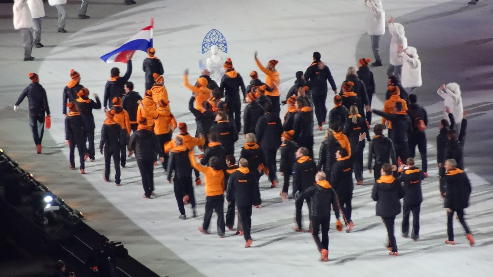 Dutch team at the 2014 Winter Olympics opening ceremony